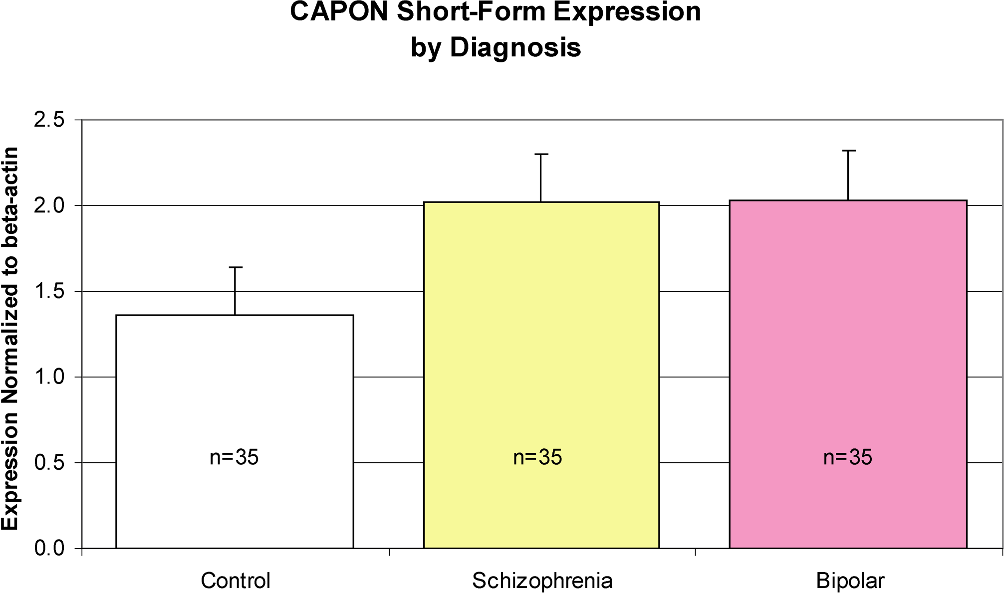 Expression levels are least squares means. Mean values per category are plotted with 95% confidence intervals. The number of individuals per sample is indicated within each bar. Expression is significantly higher in patients with schizophrenia (p = 0.0013) and bipolar (p = 0.0009) as compared to controls. The mean (95% confidence interval lower bound, upper bound) for the control, schizophrenia, and bipolar groups are 1.34 (1.05, 1.62), 2.02 (1.73, 2.30), and 2.05 (1.77, 2.34), respectively.